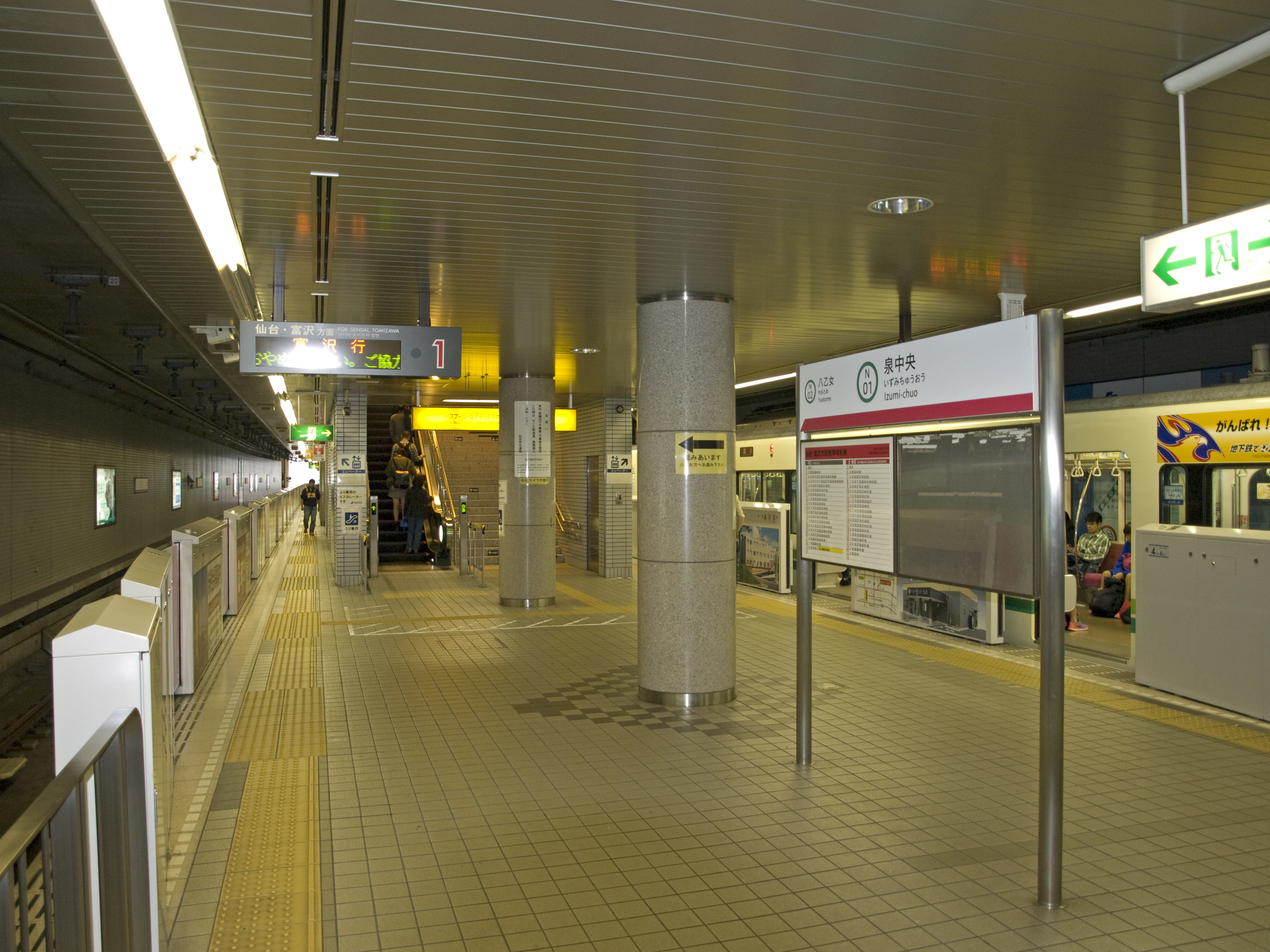 Izumi-Chuo station platforms, Sendai Metro